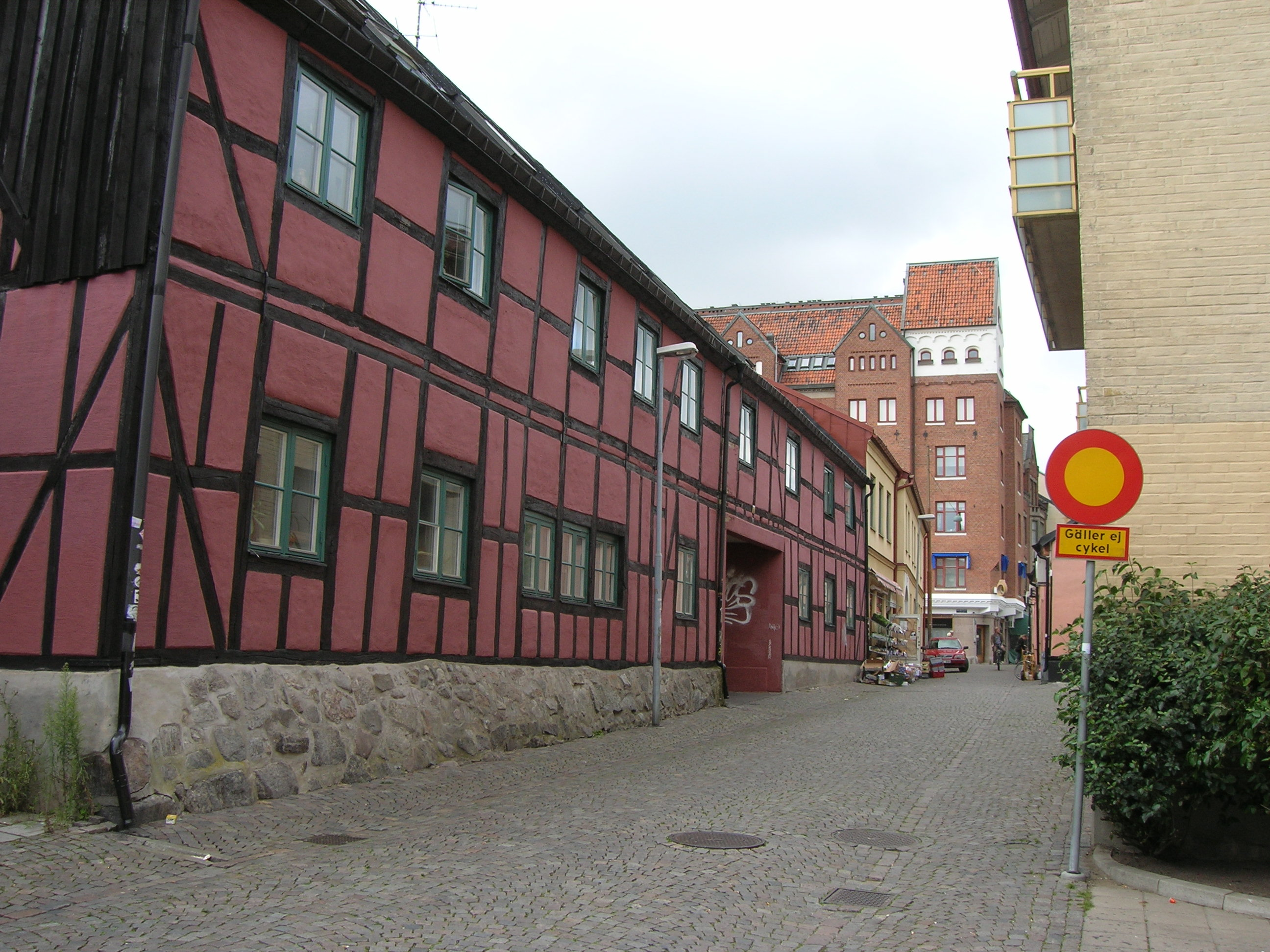 Lilla Södergatan in Lund.